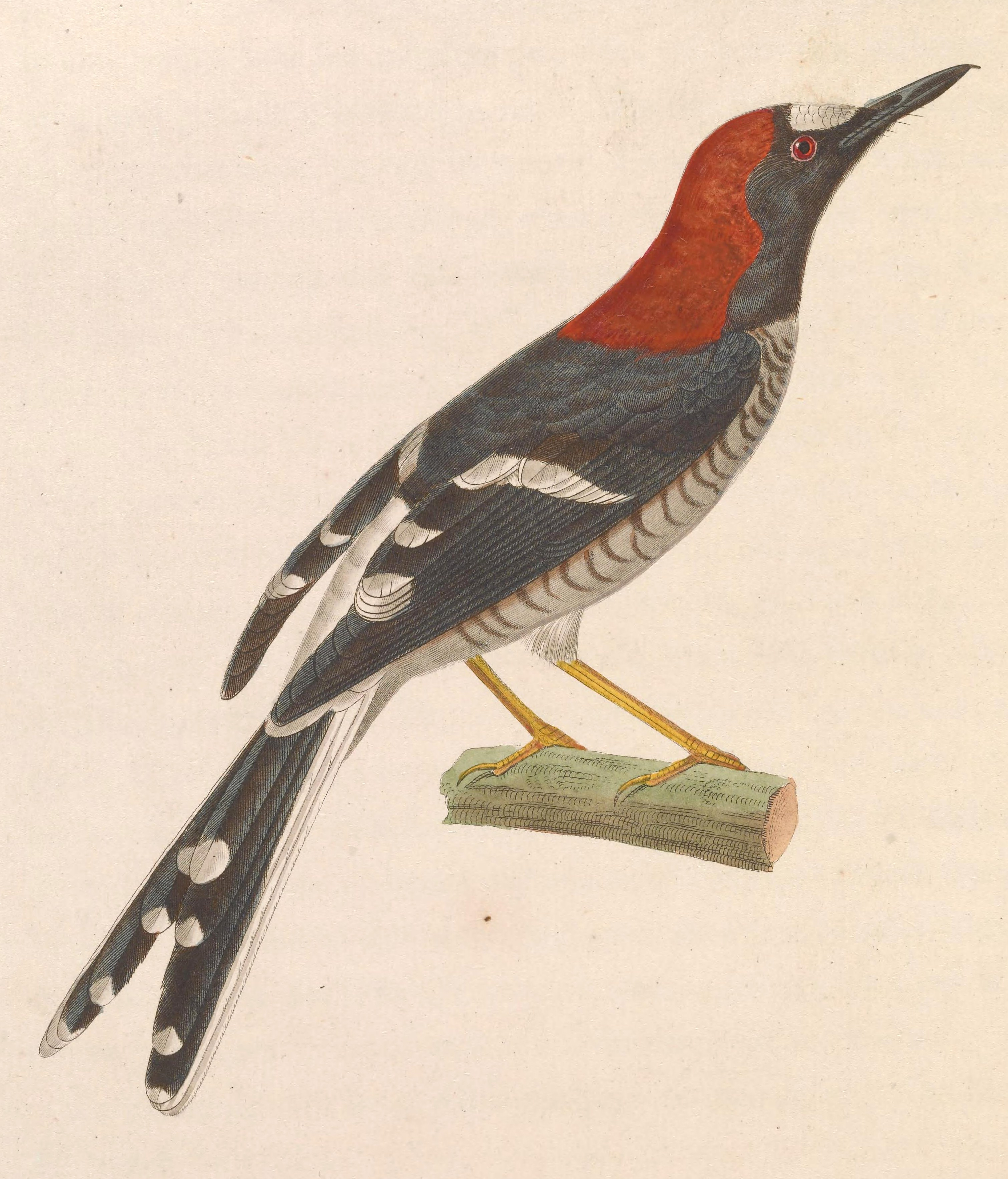 « Enicurus ruficapillus » = Enicurus ruficapillus (Chestnut-naped Forktail) - male